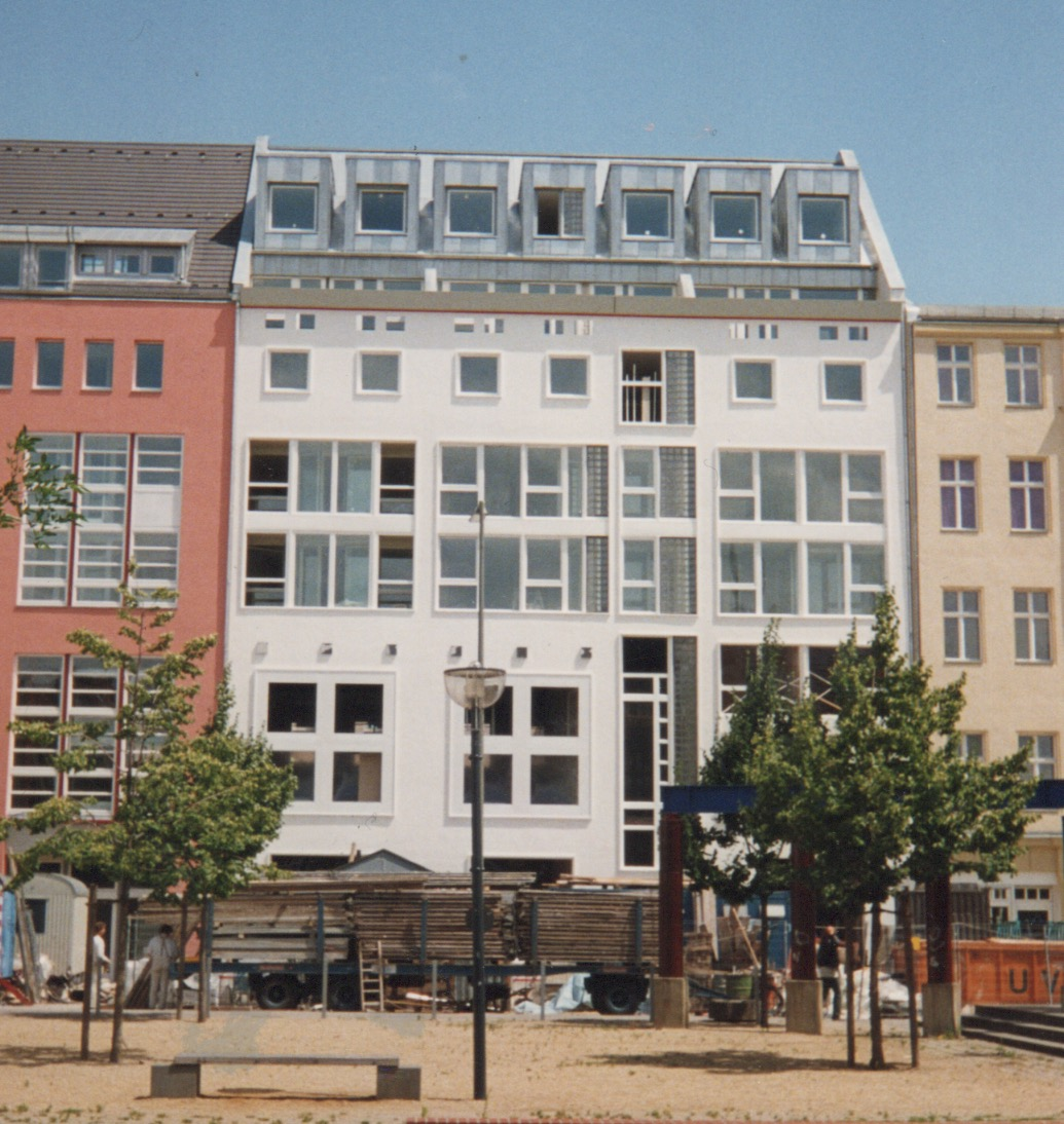 Featured images for Douglas Jarvie Clelland Wikipedia article